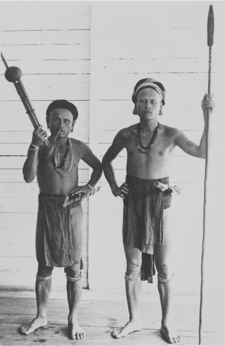 Portrait of two Iban Dayak men with a Kledi, a musical instrument, and a spear, Borneo.